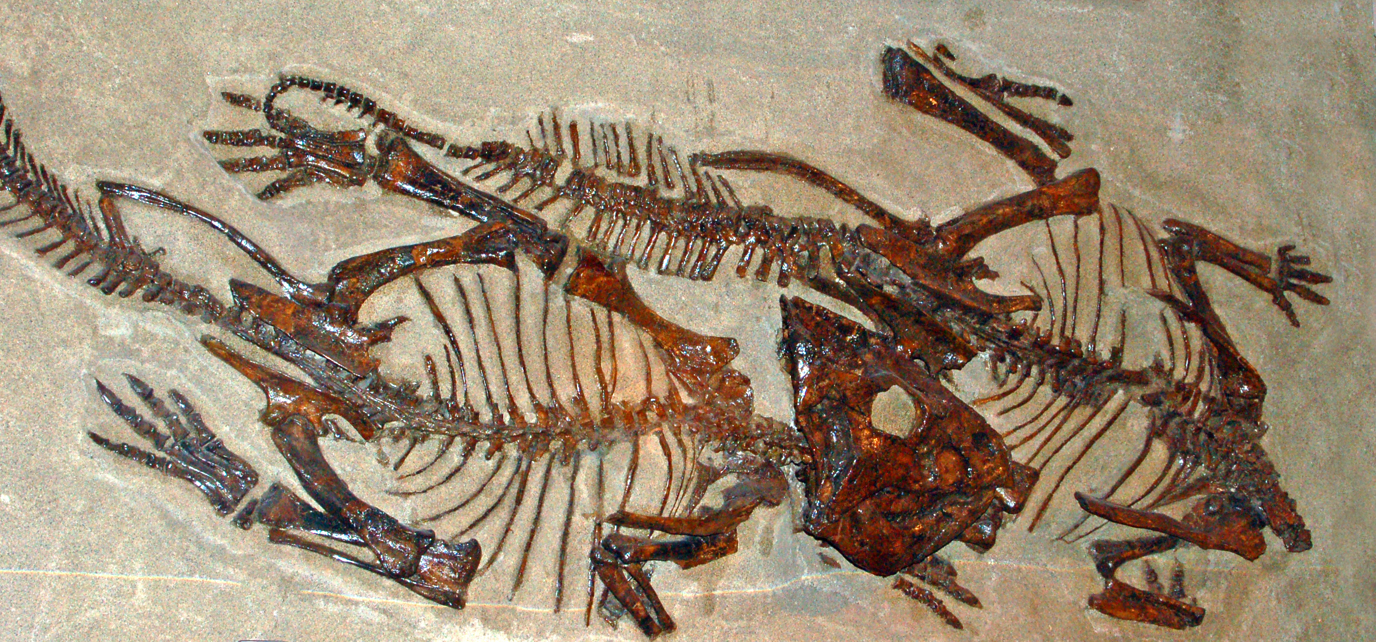 Fossil of Leptoceratops at the Canadian Museum of Nature, Ottawa